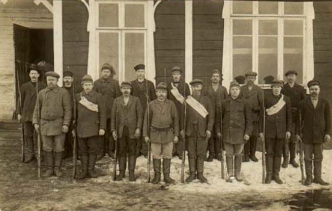 Nakkila Red Guard in 1918.